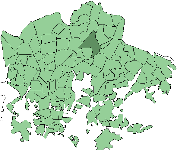 Districts of Helsinki, Ala-Malmi highlighted